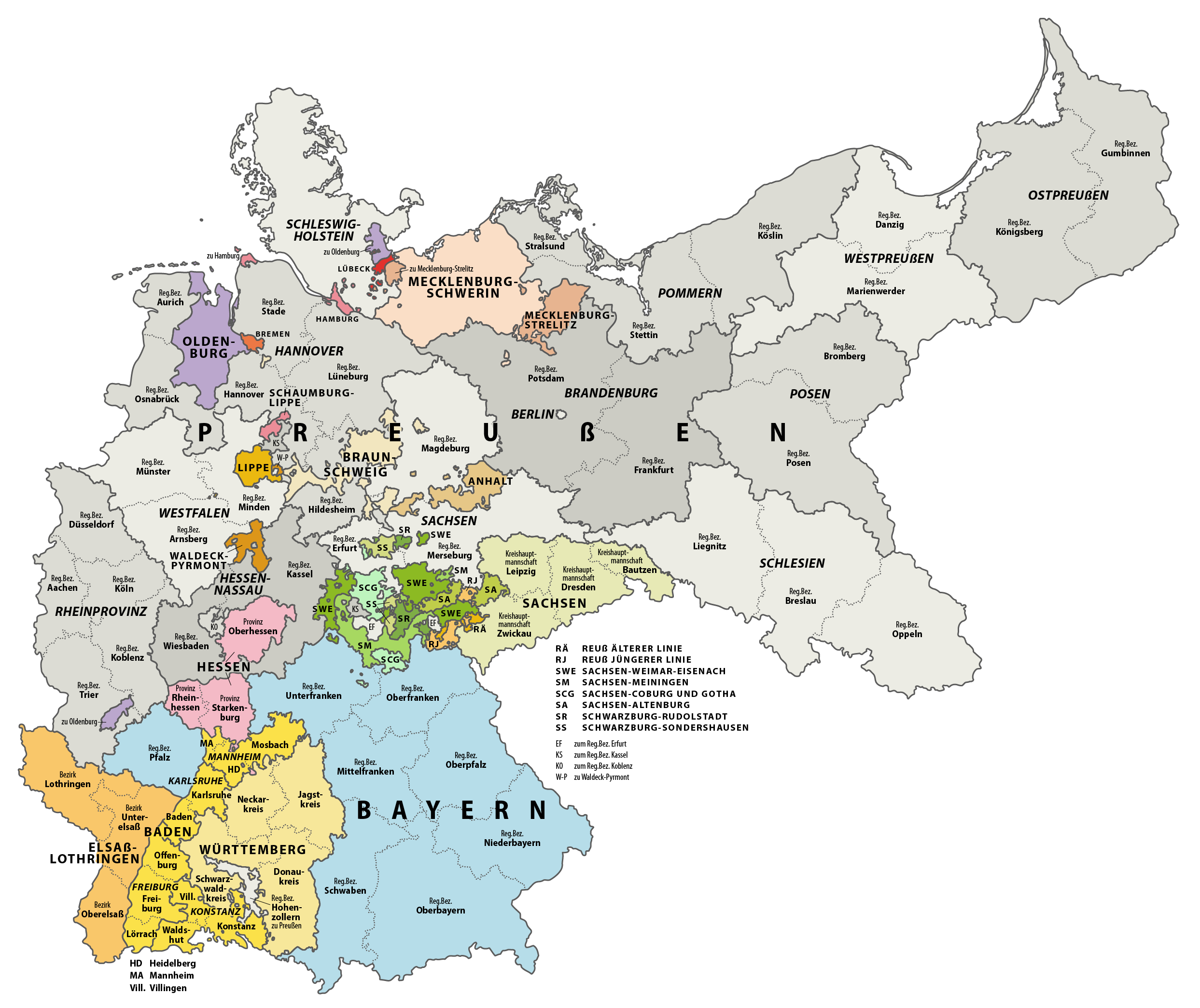 Administrative Map of the German Empire as of January 1st, 1900